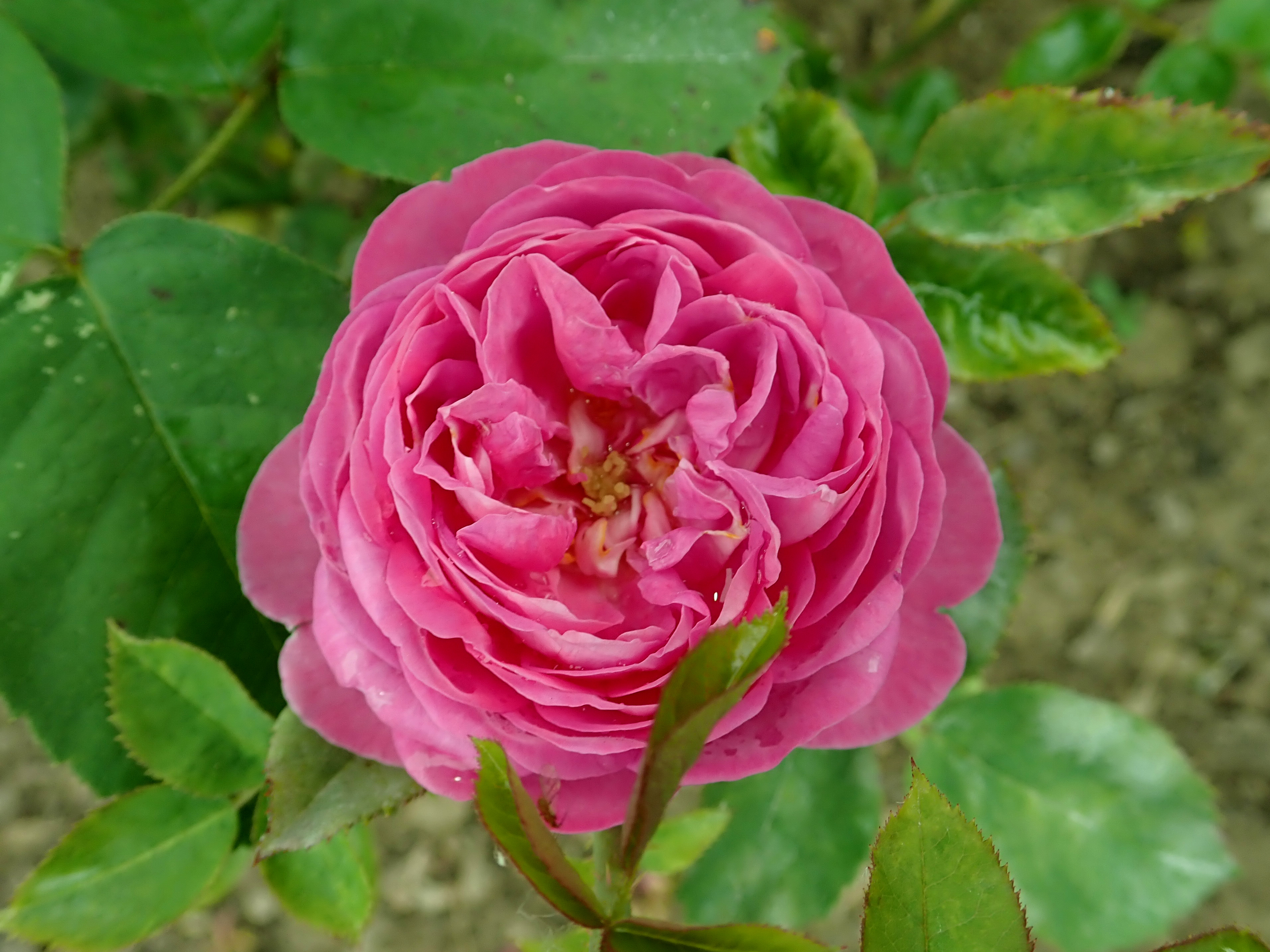 Rosa ‘Turenne’ (V. Verdier, 1861), Europa-Rosarium Sangerhausen.